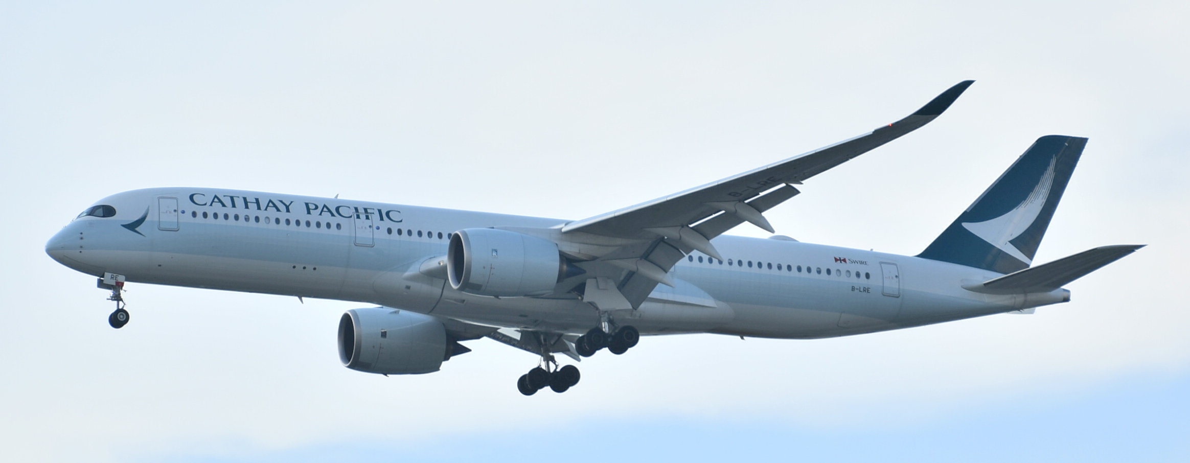 Airbus A350/9 of Cathay Pacific Airways on final approach to rwy.19R at Bangkok-BKK, Thailand, 28/10/16.